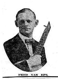 Newspaper photo of Fred Van Eps, from a period newspaper.